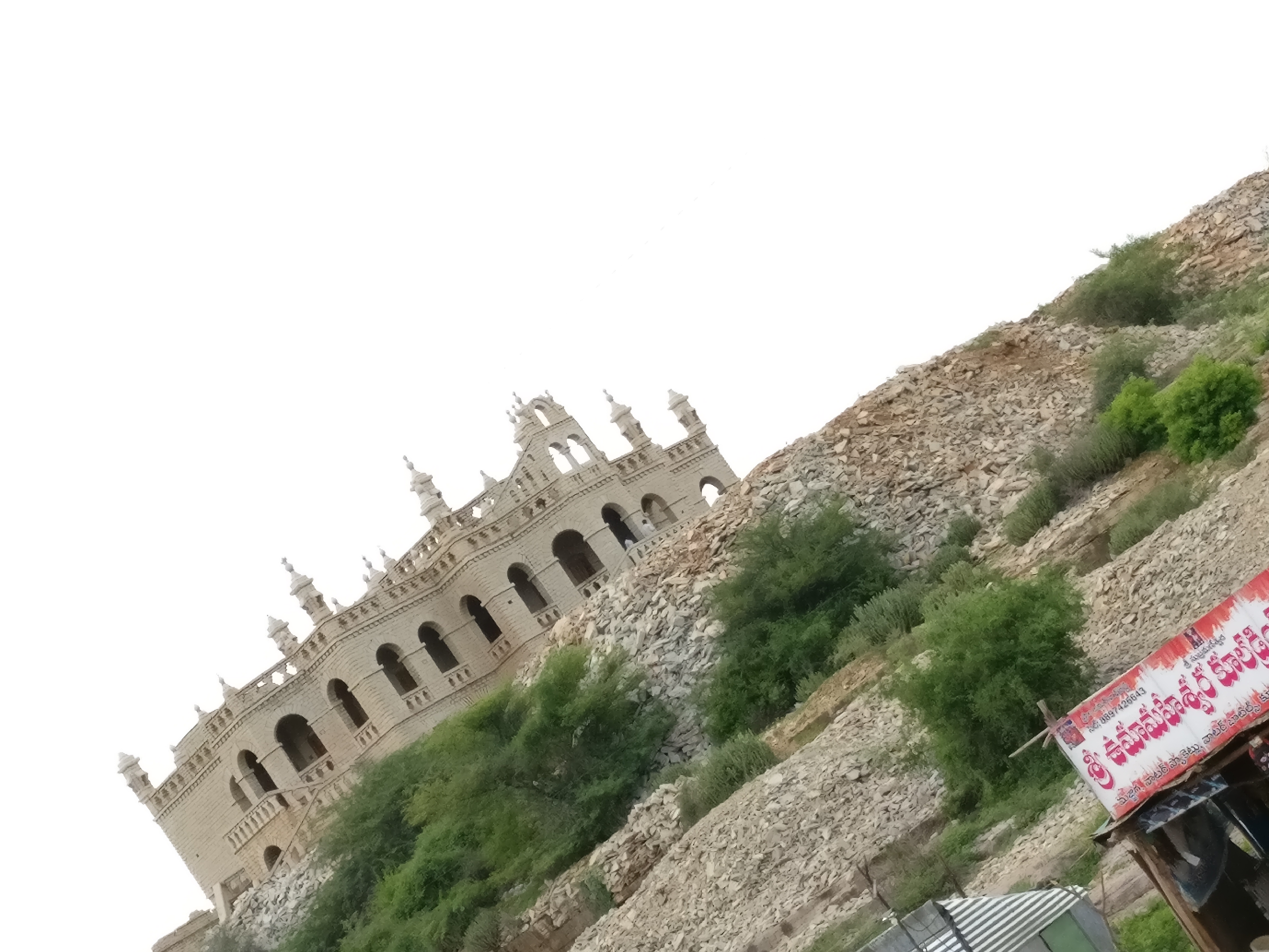 Old fort